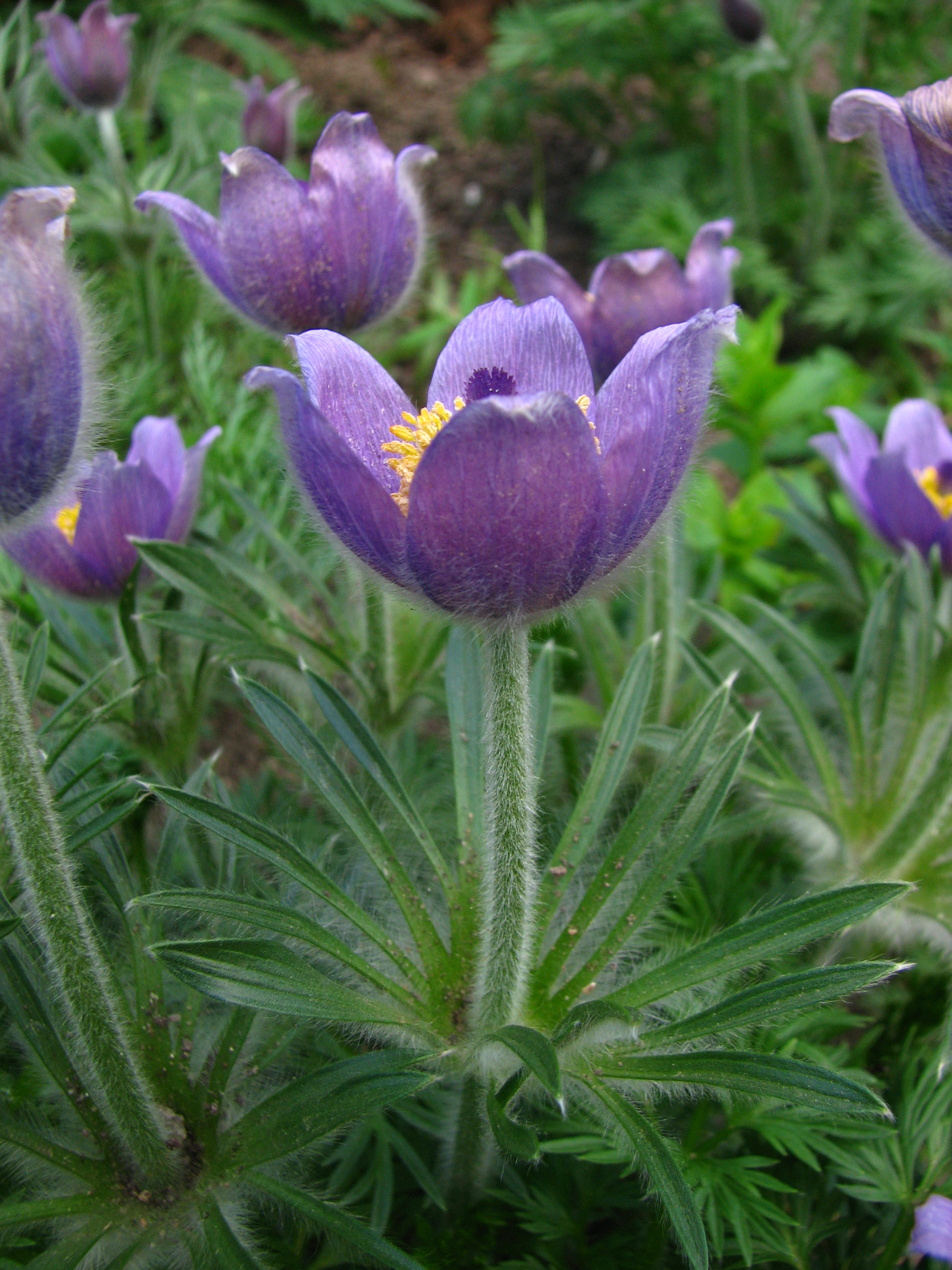 Common pasque flower (Pulsatilla vulgaris) in flower beds in the Botanical Garden of Moscow State University "Aptekarsky Ogorod".